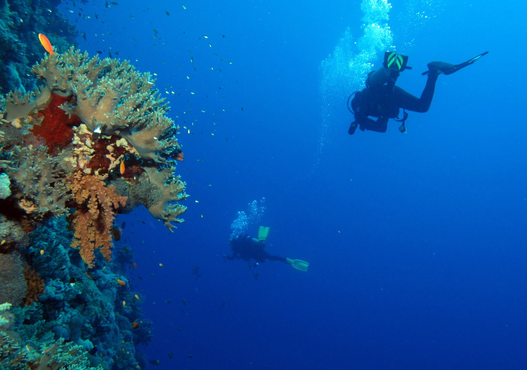 Along the wall